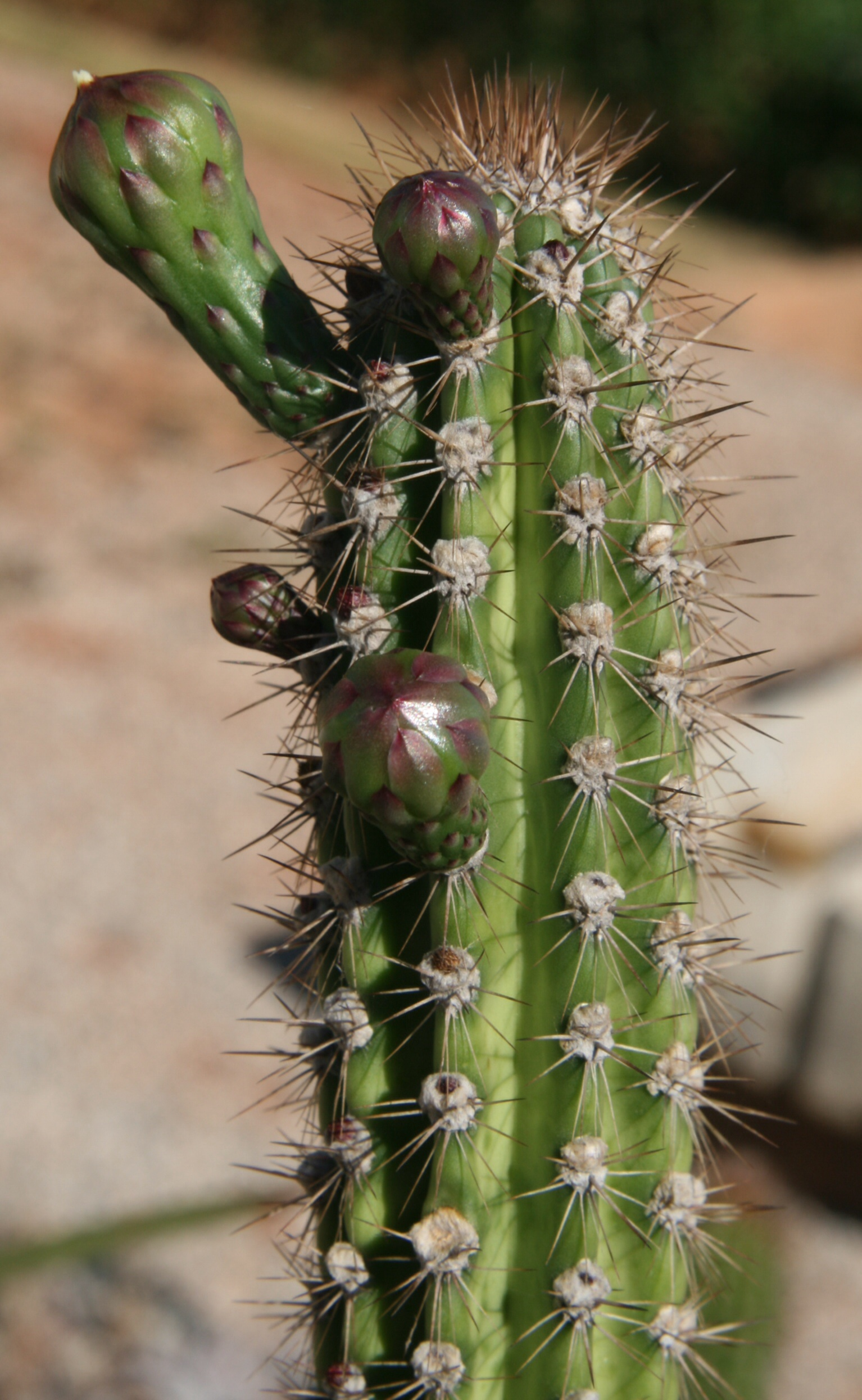 plant from Campinas, Sao Paulo, Brasil, from here described as Pilocereus campinensis Backeberg & Voll